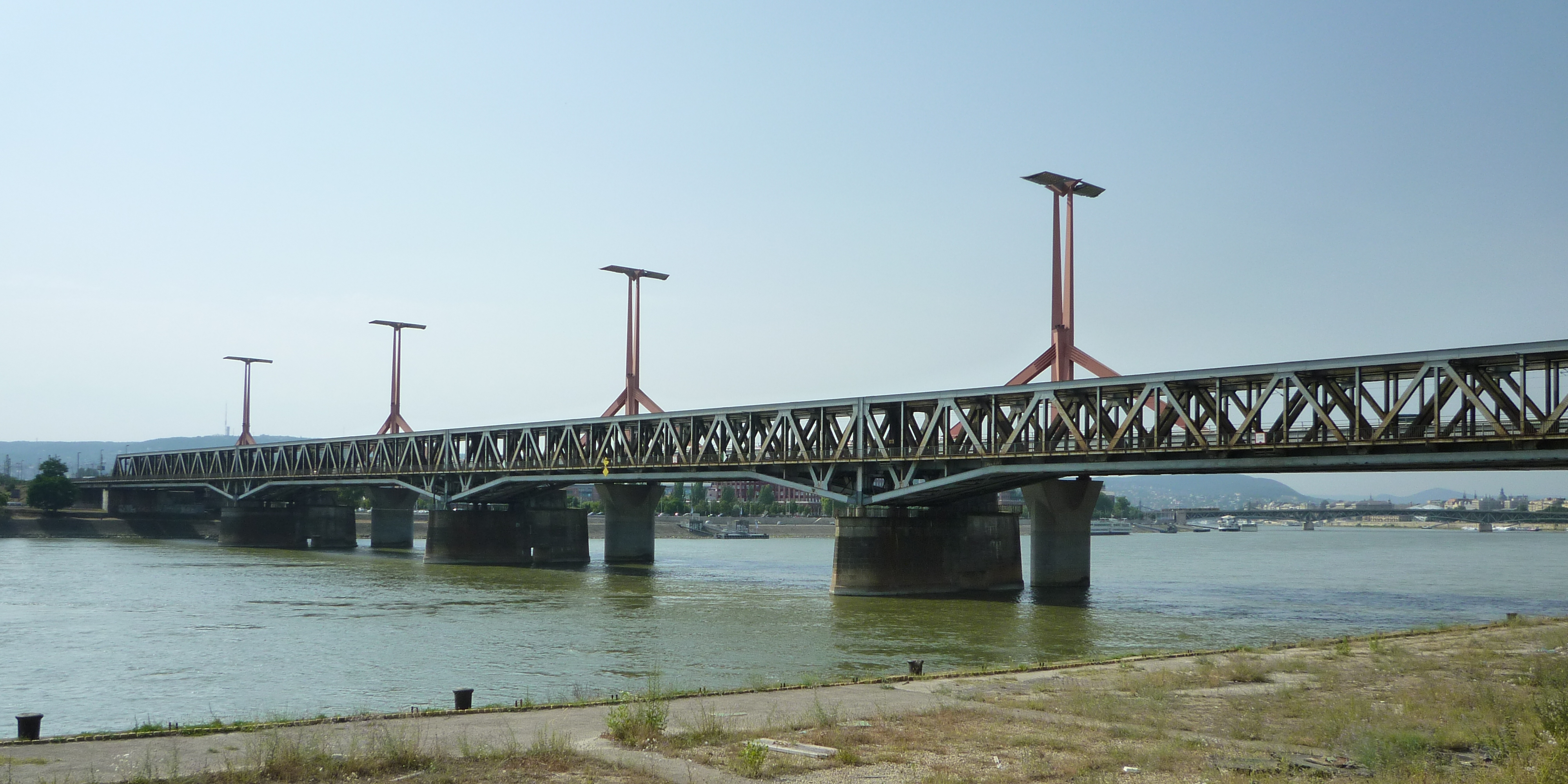 Connective Railway Bridge over the Danube in Budapest.